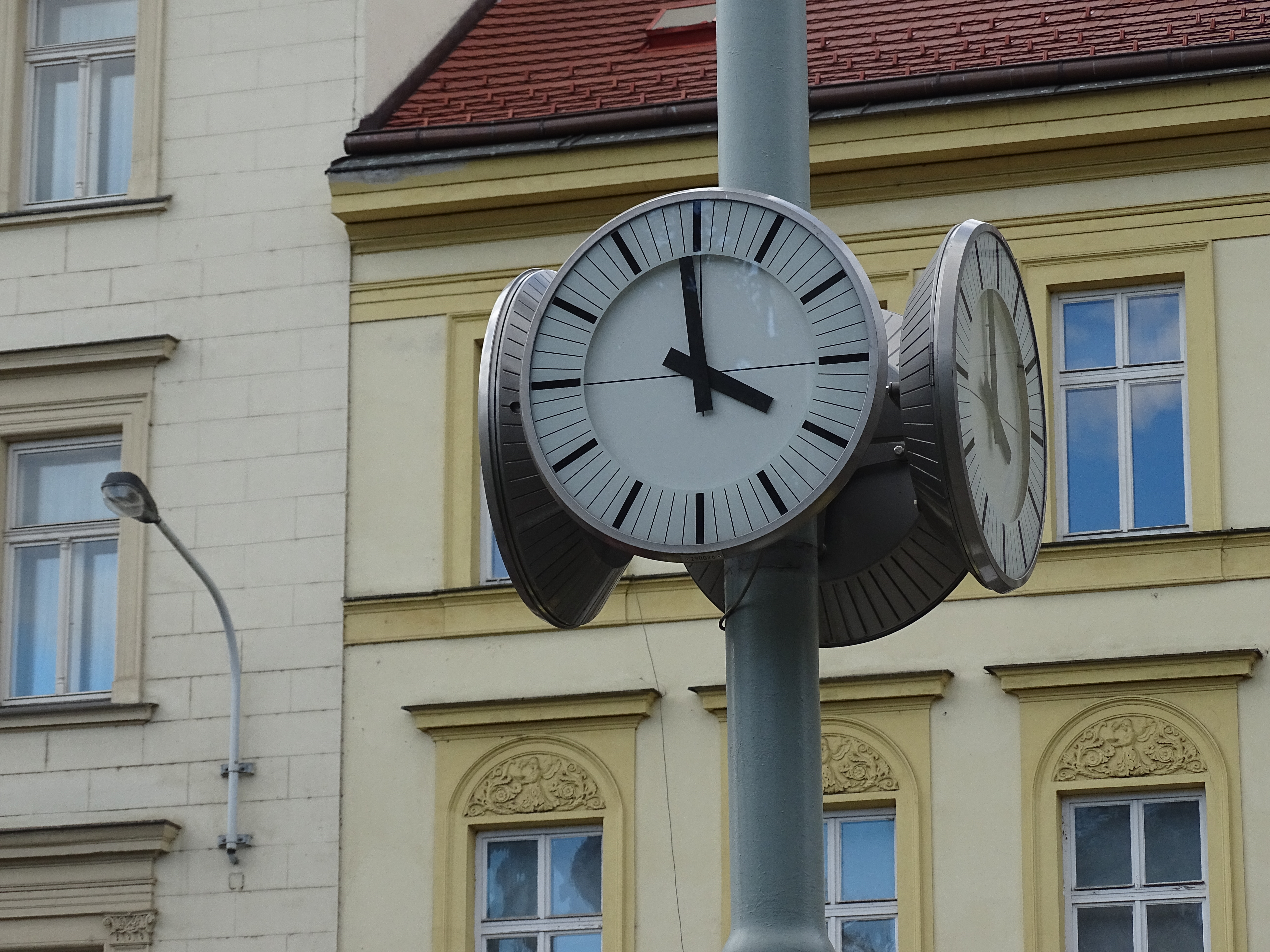 Prague-New Town, Czechia, Opletalova street, a street clock.